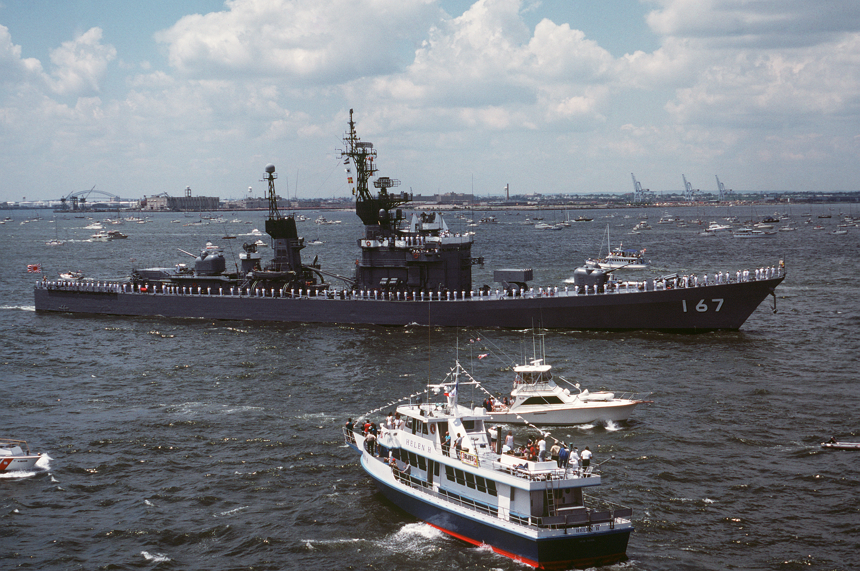 A starboard view of the Japanese destroyer Nagatsuki (DD-167) passing in review during the International Naval Review celebrating the centennial of the Statue of Liberty.